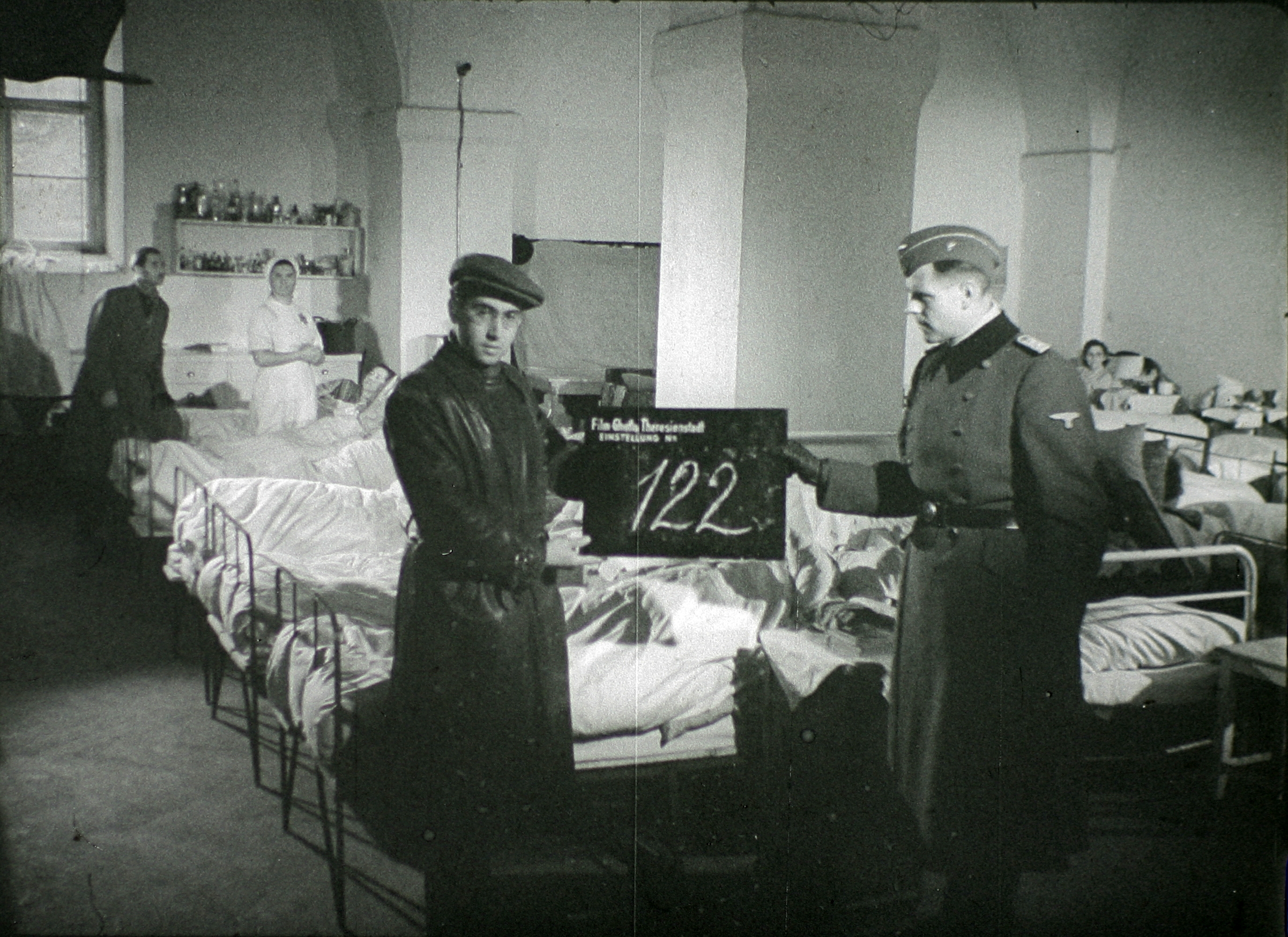 Photograph identified by Karel Margry as having been taken during the shooting of the first Theresienstadt film in 1942 ("The First Theresienstadt Fim (1942) in Historical Journal of Film, Radio & Television Aug. 1999, Vol. 19 Issue 3, p. 323